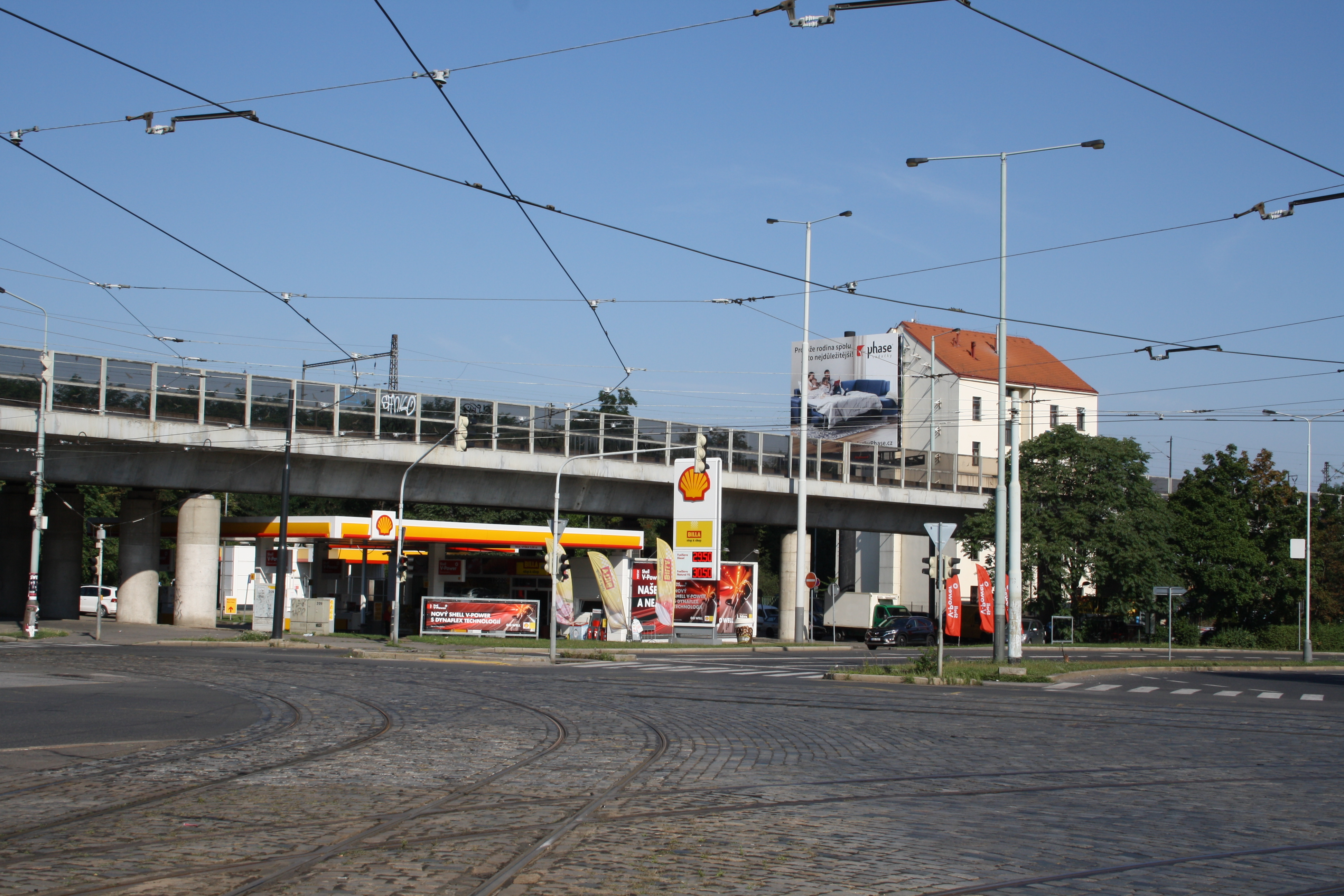 Balabenka, view from Ceskomoravska, Liben, Prague, Czech republic